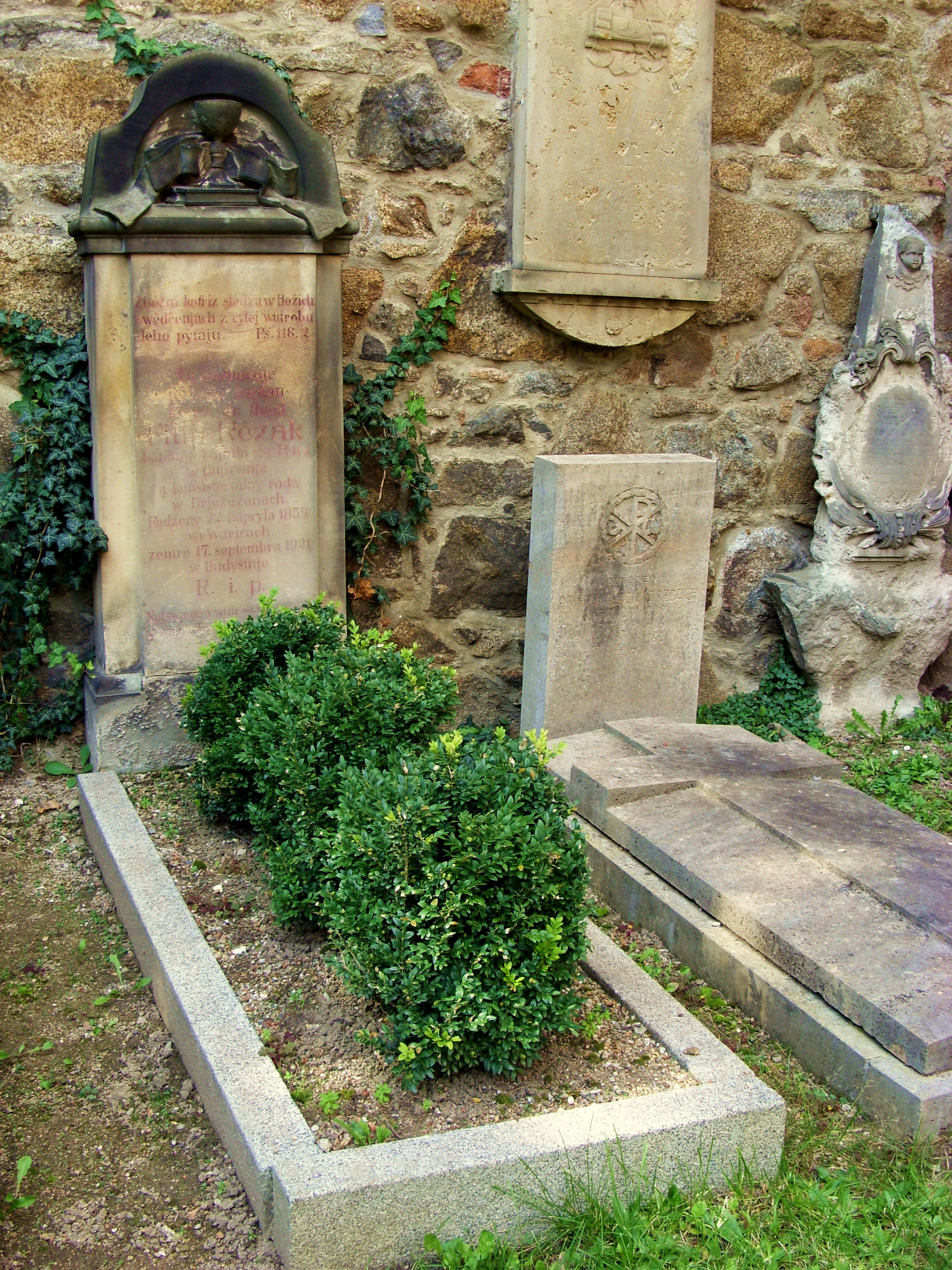 Grave of Filip Rězak in Bautzen/Budyšin.